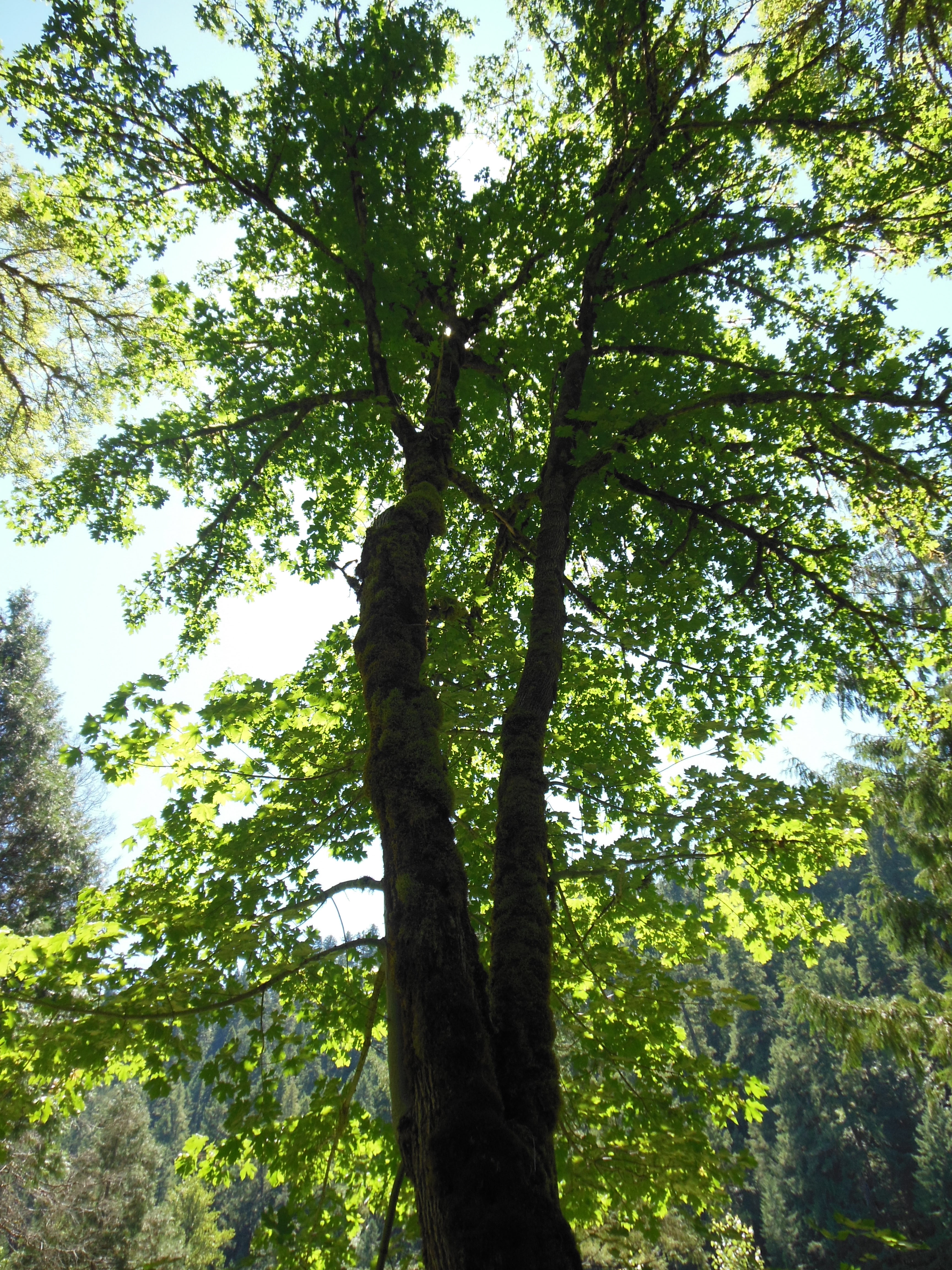 View looking up the trunk of a bigleaf maple, or Oregon maple (Acer macrophyllum) near the McKenzie River in Lane County, Oregon